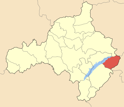 Locator map of Velvendou municipality (Δήμος Βελβεντού) at Kozani perfecture, Greece.